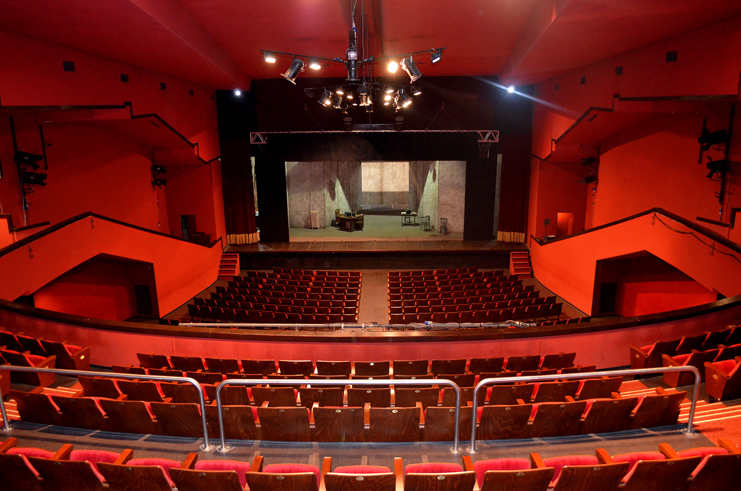 The stage of the Carcano Theater from the balcony